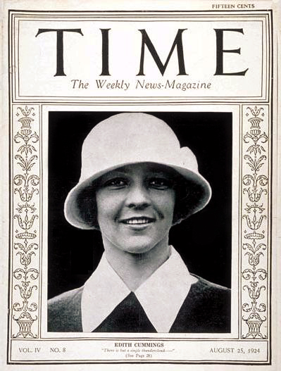 Time Magazine, Volume IV Issue 8, August 25, 1924The cover shows the 1923 U.S. Women's Amateur Champion, Edith Cummings.